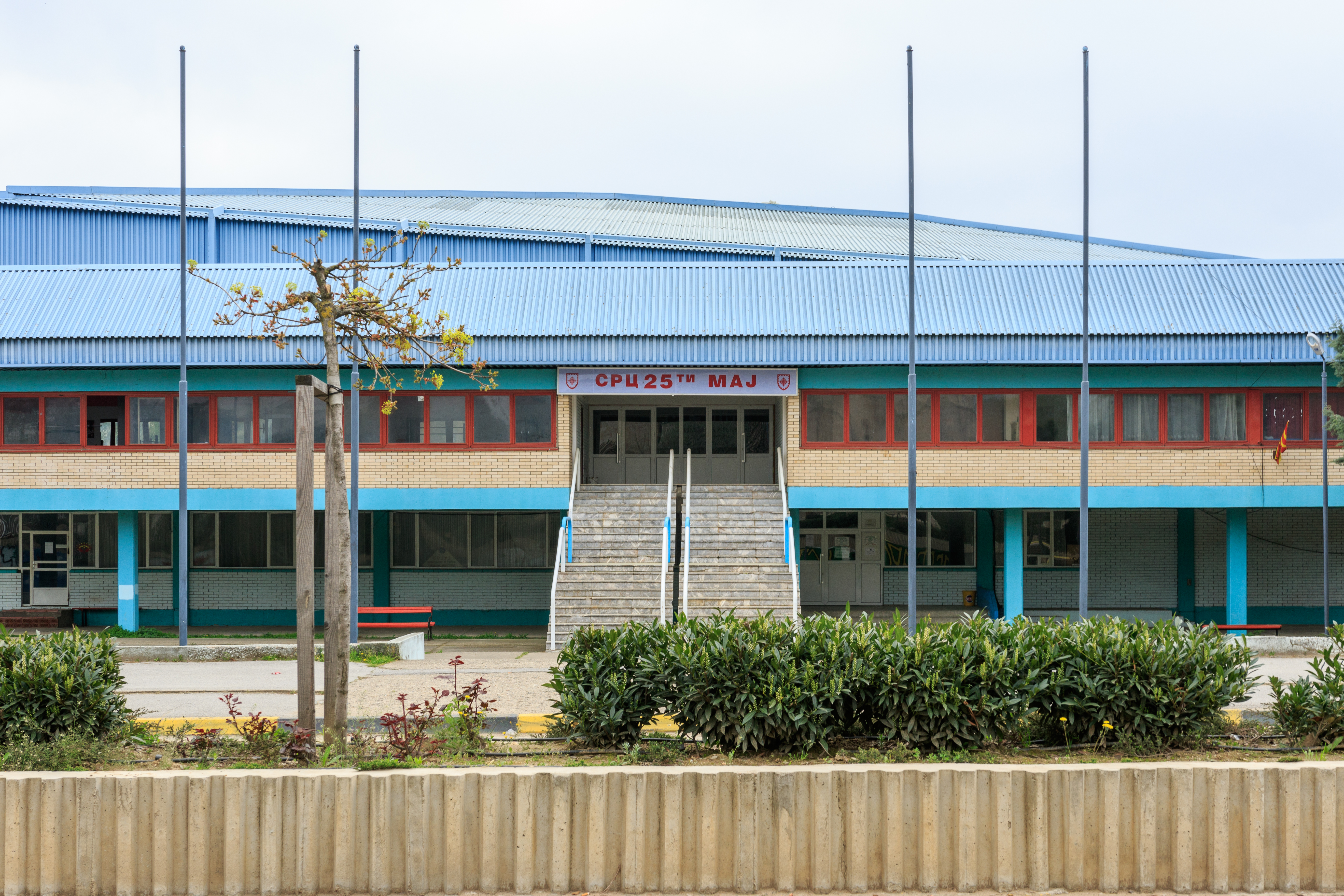 Photographs from the first Wikiexpedition in 2016